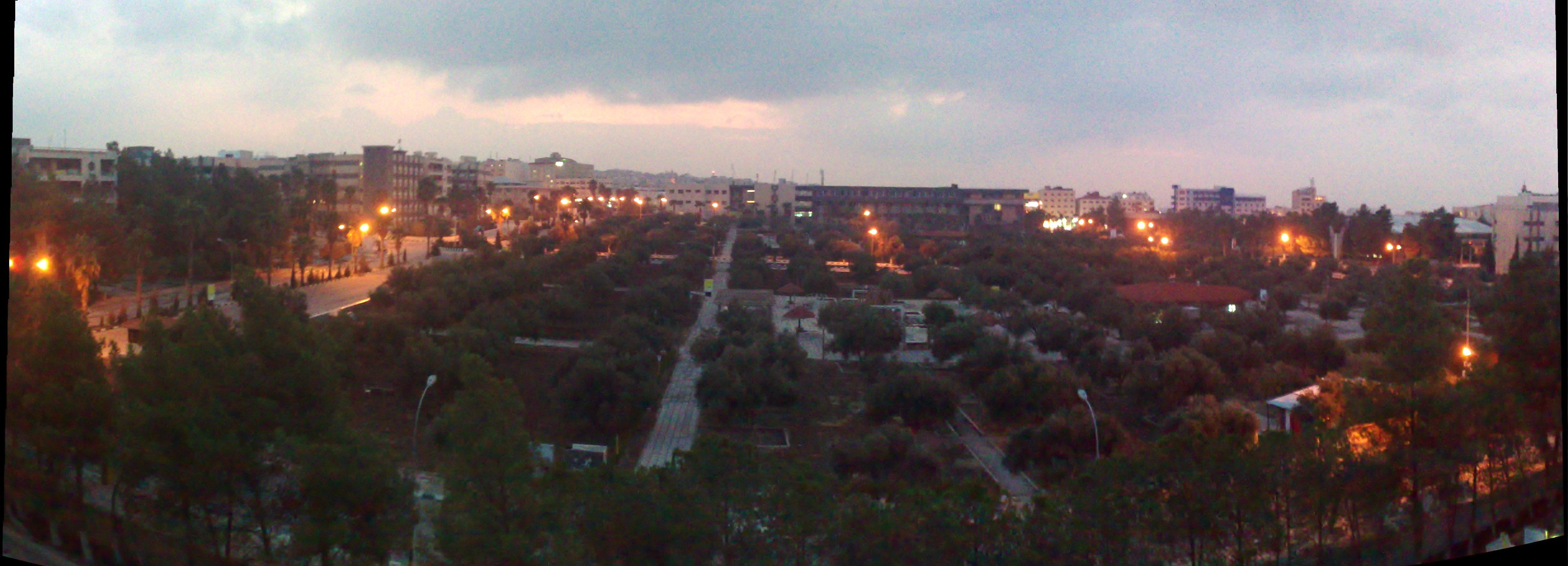 This is a panorama I made of Al-Yarmouk university from the college of Arts.